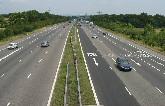 M23 Motorway between junctions 9 and 10, West Sussex